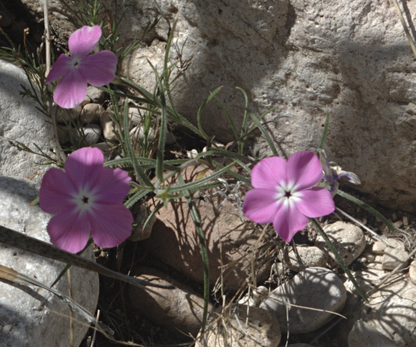 Three-seed phlox, Phlox triovulata, Slaughter Canyon, Carlsbad Caverns National Park, New Mexico, U.S.A.